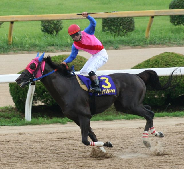 Vancle Tateyama(Horse, Saga Racecourse)